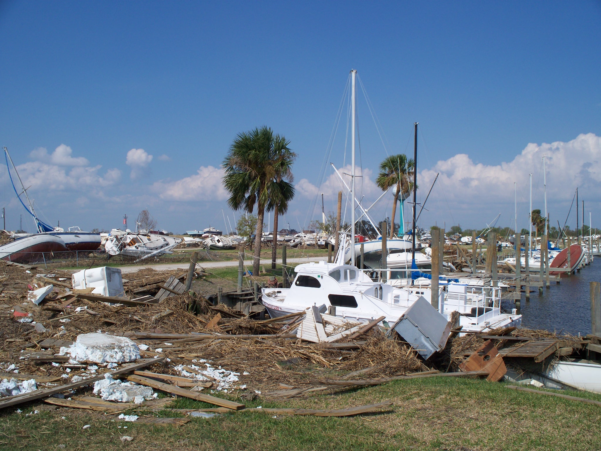 Hurricane Ike damage at Port Arthur, TX Pleasure Island at the docks.